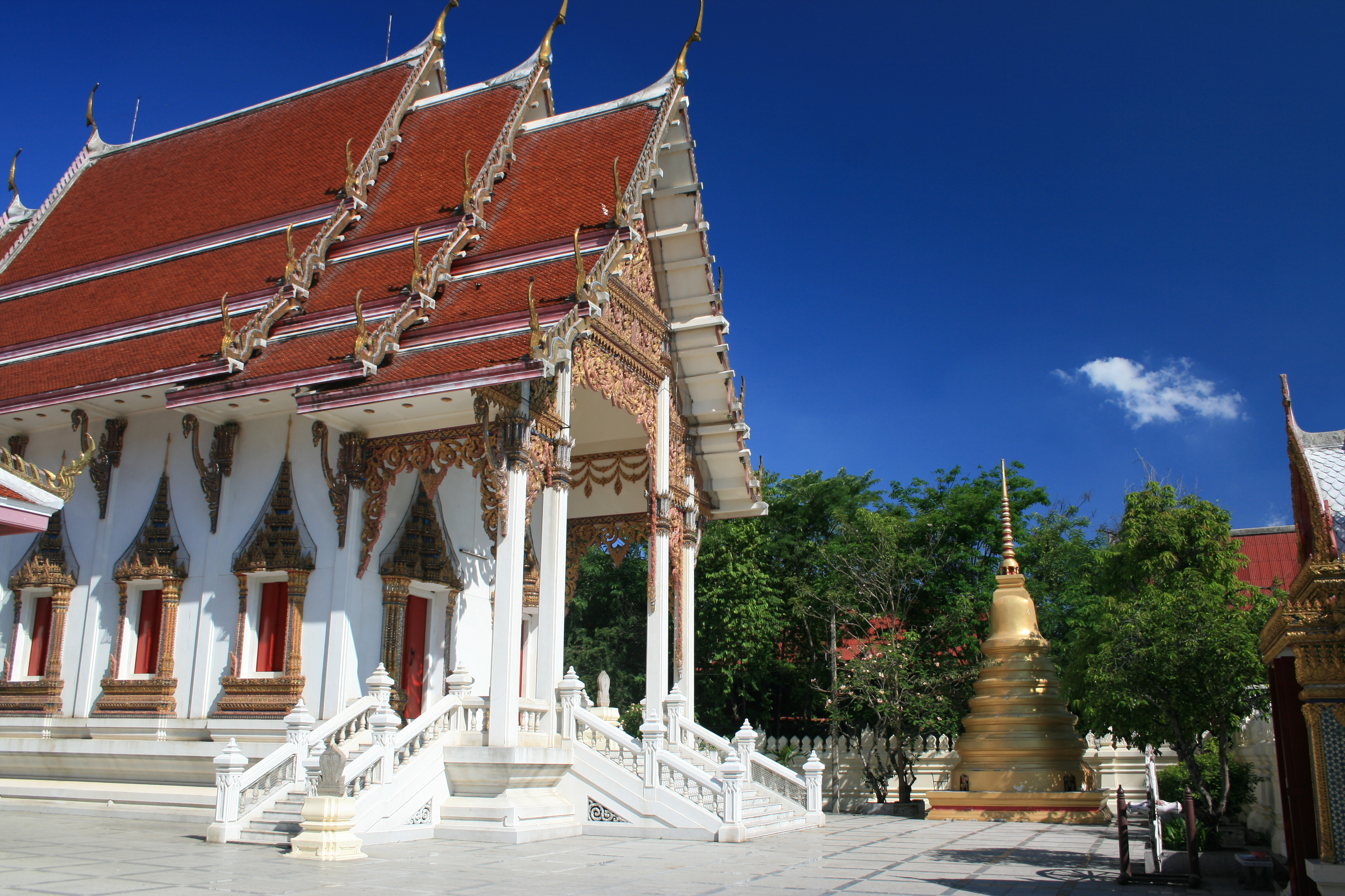 Ubosot and chedi of Wat Don Wai